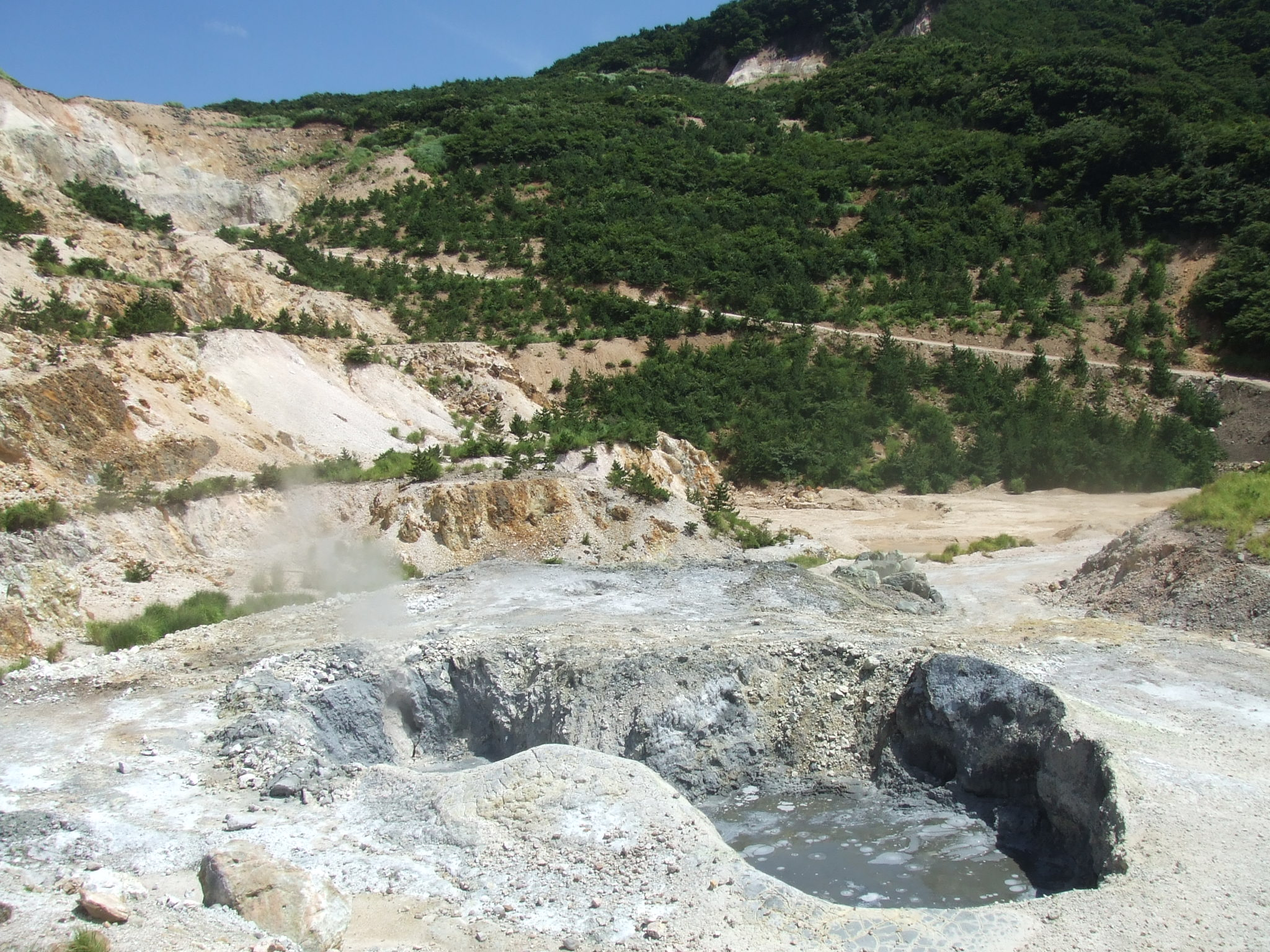 Tsukahara spa. volcano crater